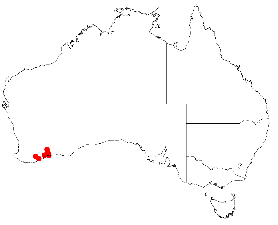 Acacia durabilis occurrence data from Australasian Virtual Herbarium downloaded from on 8 December 2018